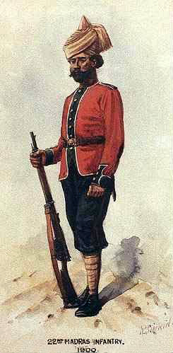 22nd Madras Infantry (now 4 Punjab, Pakistan Army), 1900. Illustration by Richard Simkin, c. 1912.